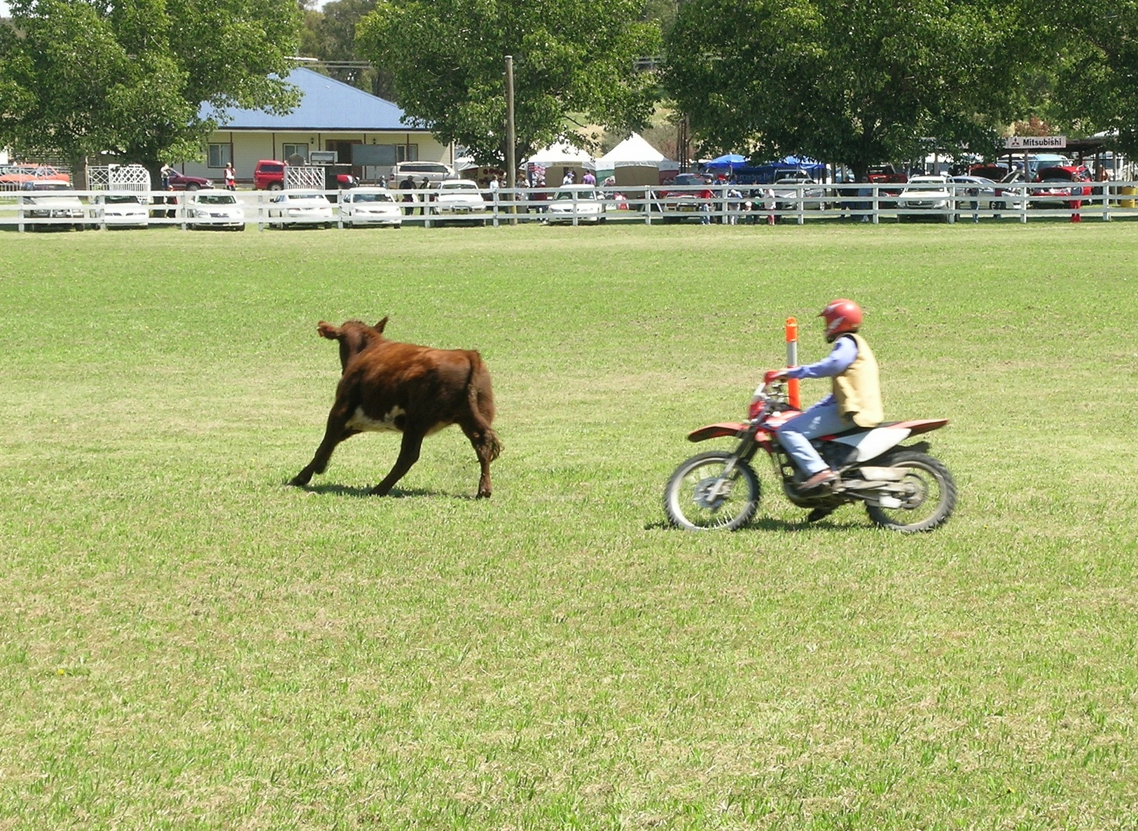 Motorcycle campdrafting, run owing to the Equine Influenza outbreak and ban on horses, Walcha, NSW